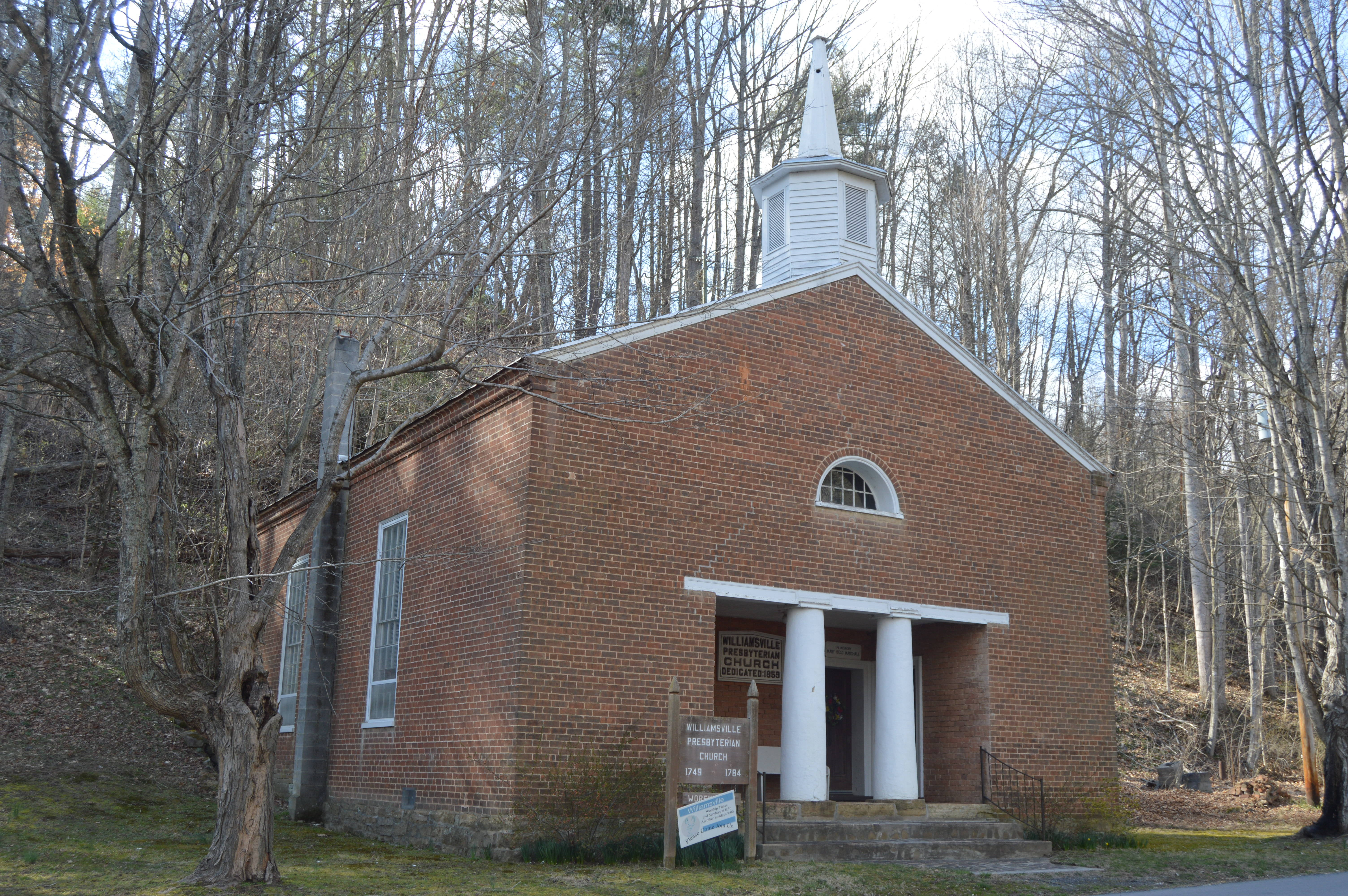 Front and southern side of Williamsville Presbyterian Church, located on Indian Draft Road at Williamsville in Bath County, Virginia, United States.